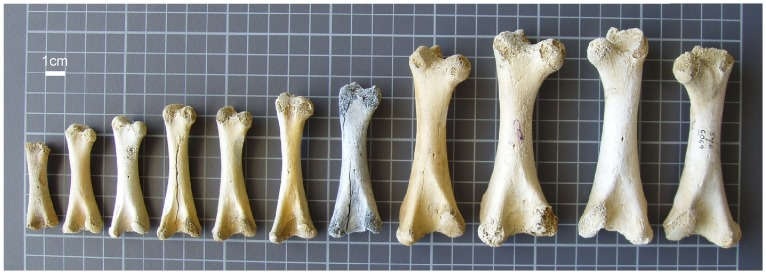 From left to right: LB5990, LB8295, LB6070, LB6261d, LB6284, LB6261c, LB12961, LB6285b, LB6657, LB6071, LB6069. All are left femora except the two at far right. DNA analysis suggests all are from Euryapteryx except for LB6261c which was identified as Dinornis. Gridlines are at 10 mm intervals.